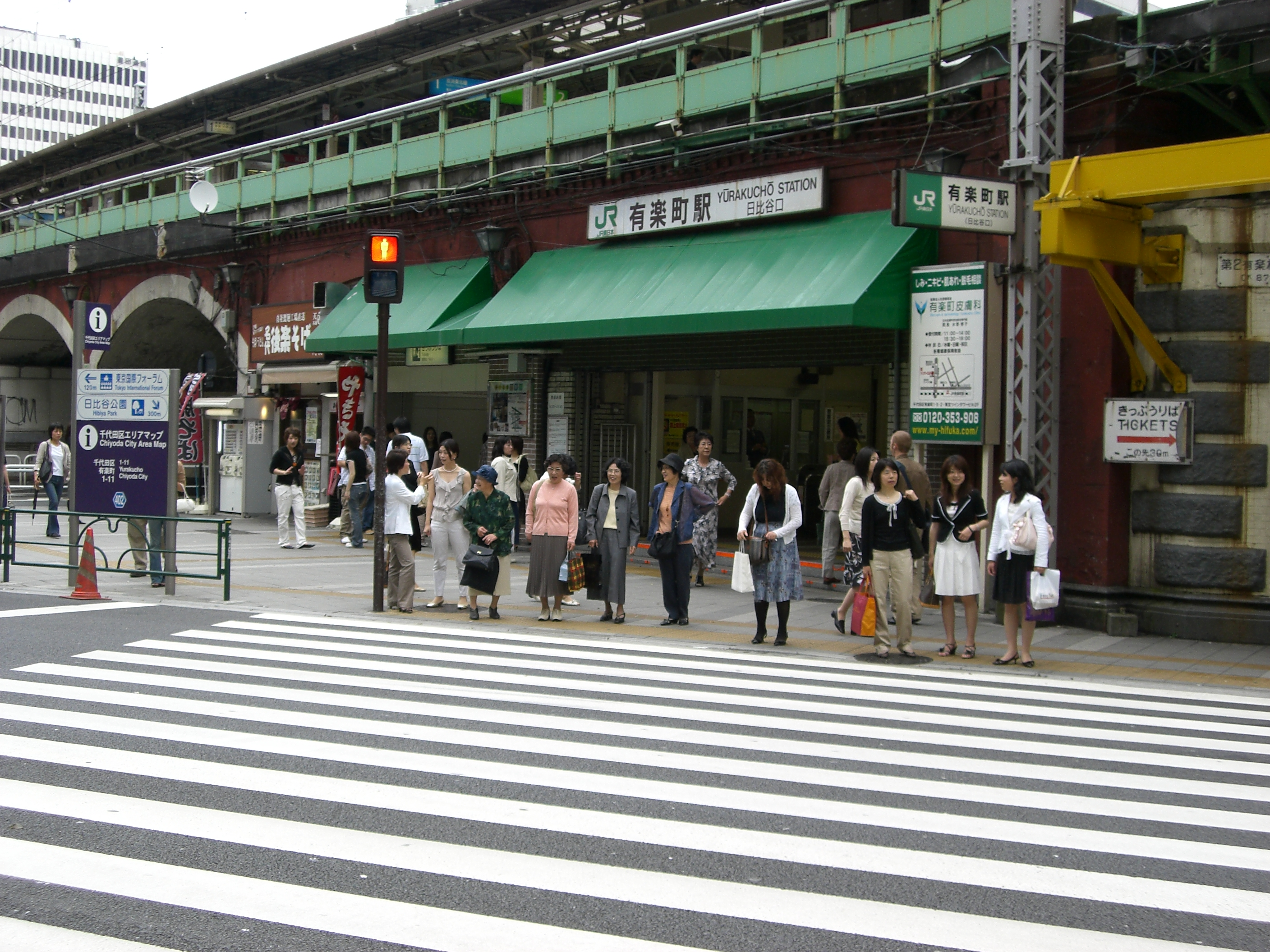 The station I usually used on the Yamanote line